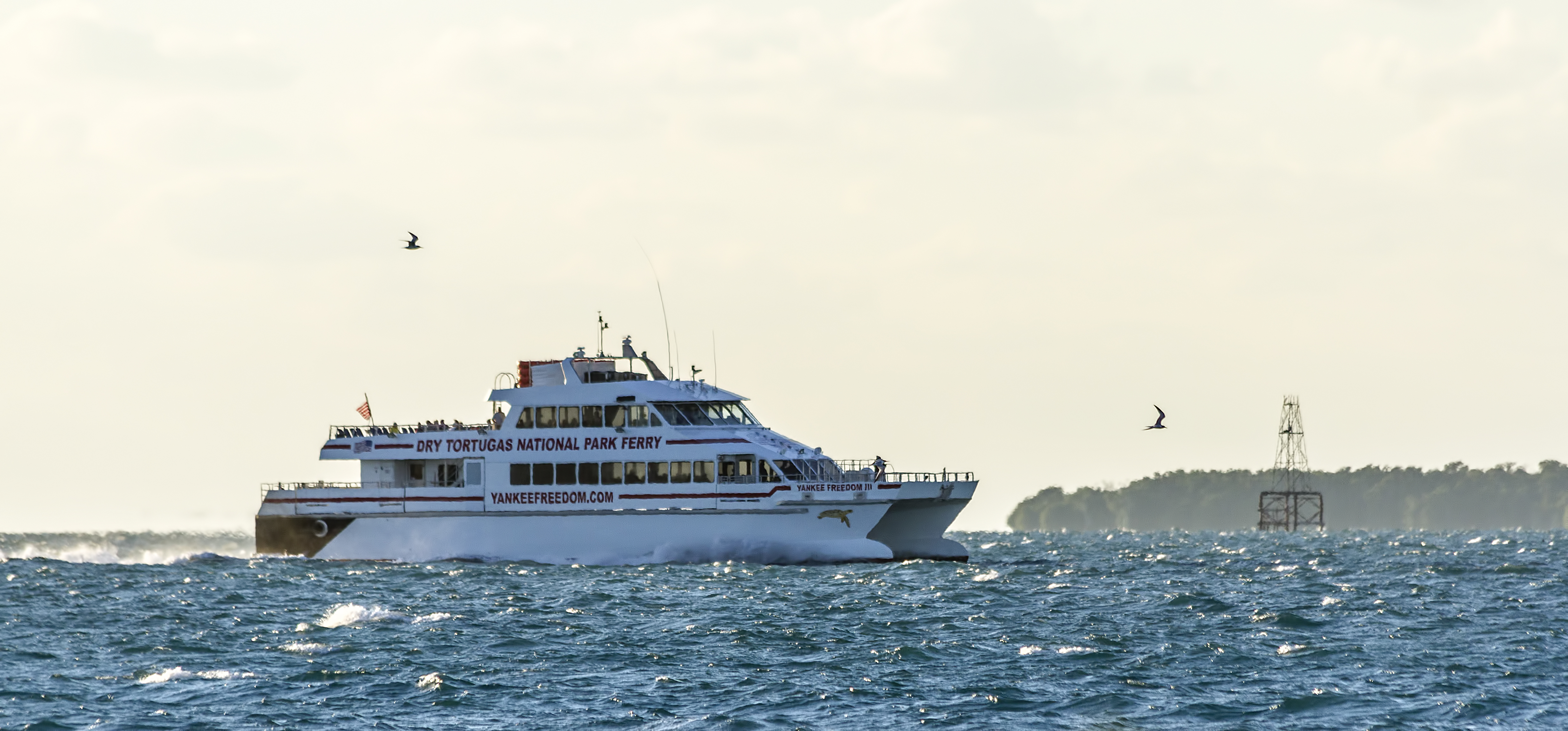 The Incat/Gladding-Hearnes catamaran Yankee Freedom III returning to Key West, Florida from Dry Tortugas National Park.